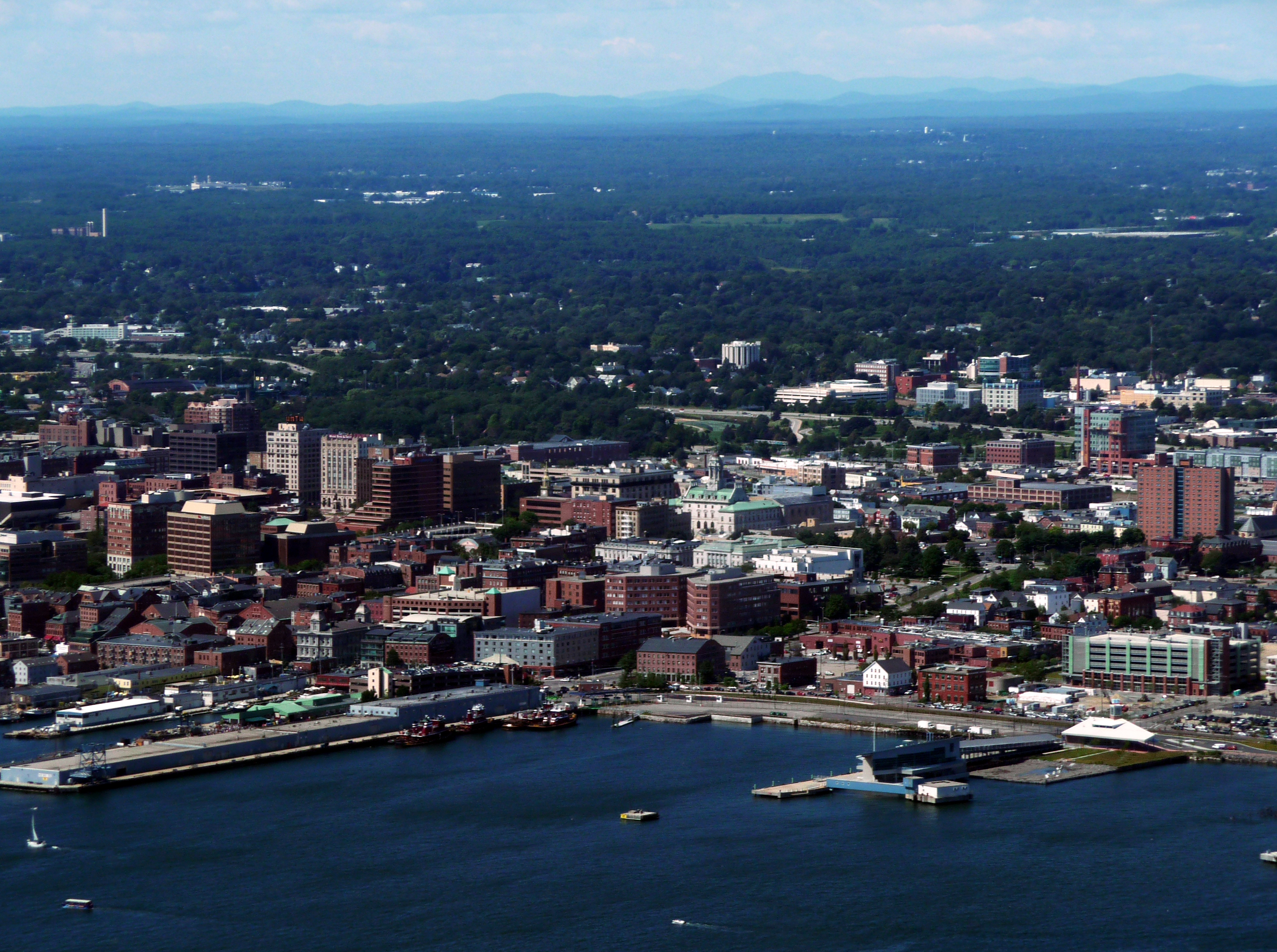 Old Port area of Portland, ME with the White Mountains visible in the background.